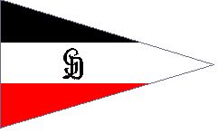 Uploaded by author and webmaster of